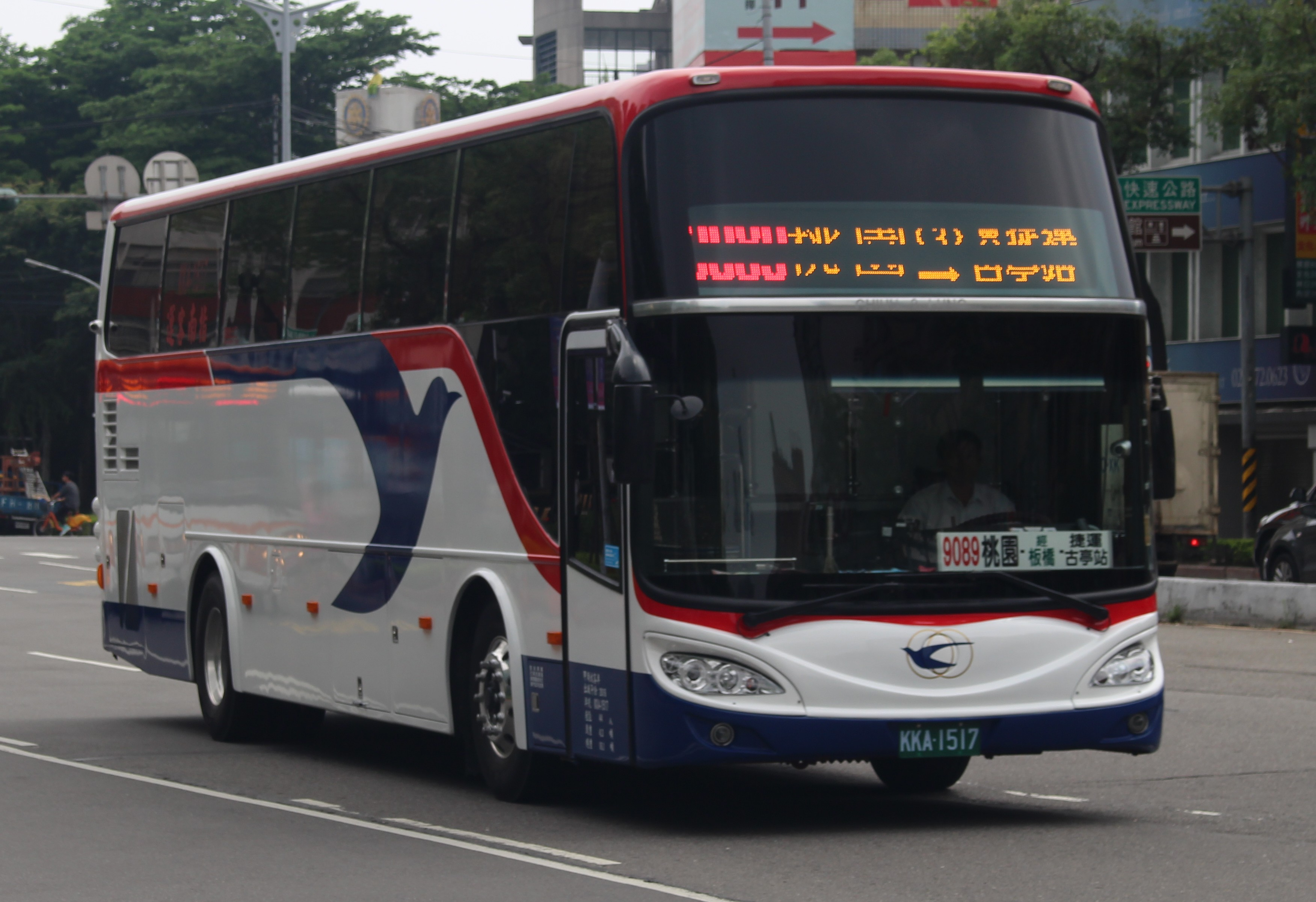 FUSO RM11FN2XC bus of Chih-Nan Bus KKA-1517